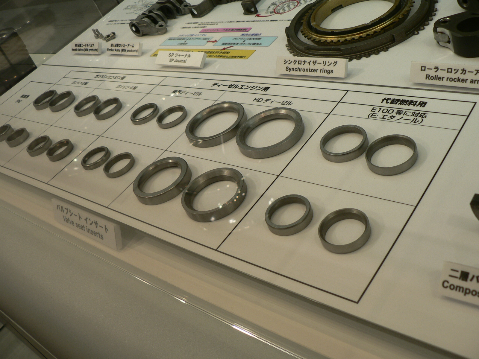 Valve seat inserts by NIPPON PISTON RING CO.,LTD. at Tokyo Motor Show 2007.